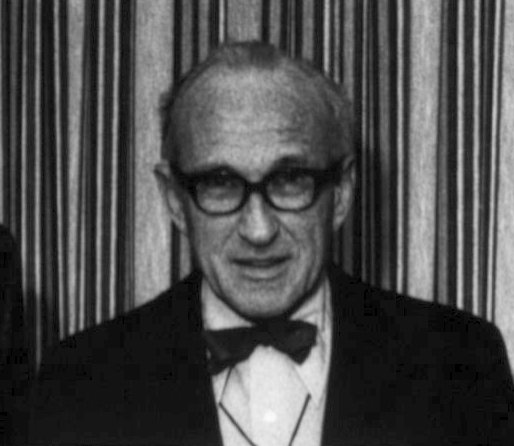 Elvin A. Kabat, American biomedical scientist who is considered one of the founding fathers of modern quantitative immunochemistry